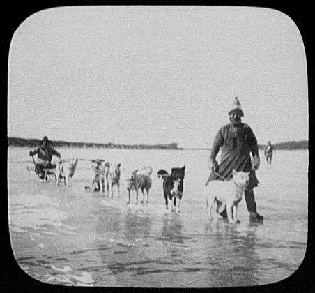 Title: Goldi men with dog sled on Amur River Physical description: 1 slide : lantern, hand colored ; 3.25 x 4 in. Notes: Forms part of: Jackson, William Henry, 1843-1942. World's Transportation Commission photograph collection (Library of Congress).; Gift; William P. Meeker; 1971.